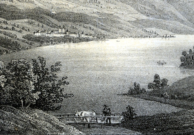 The western end of Lake Millstatt in Seeboden / Carinthia / Austria / European Union. Copper engraving by Joseph Wagner, 1845, "region around Millstatt". The inset shows the wooden bridge at the western outlet of Lake Millstatt. In the background is the monastery of Millstatt, in the woods above the church of Obermillstatt on the platform above the lake.